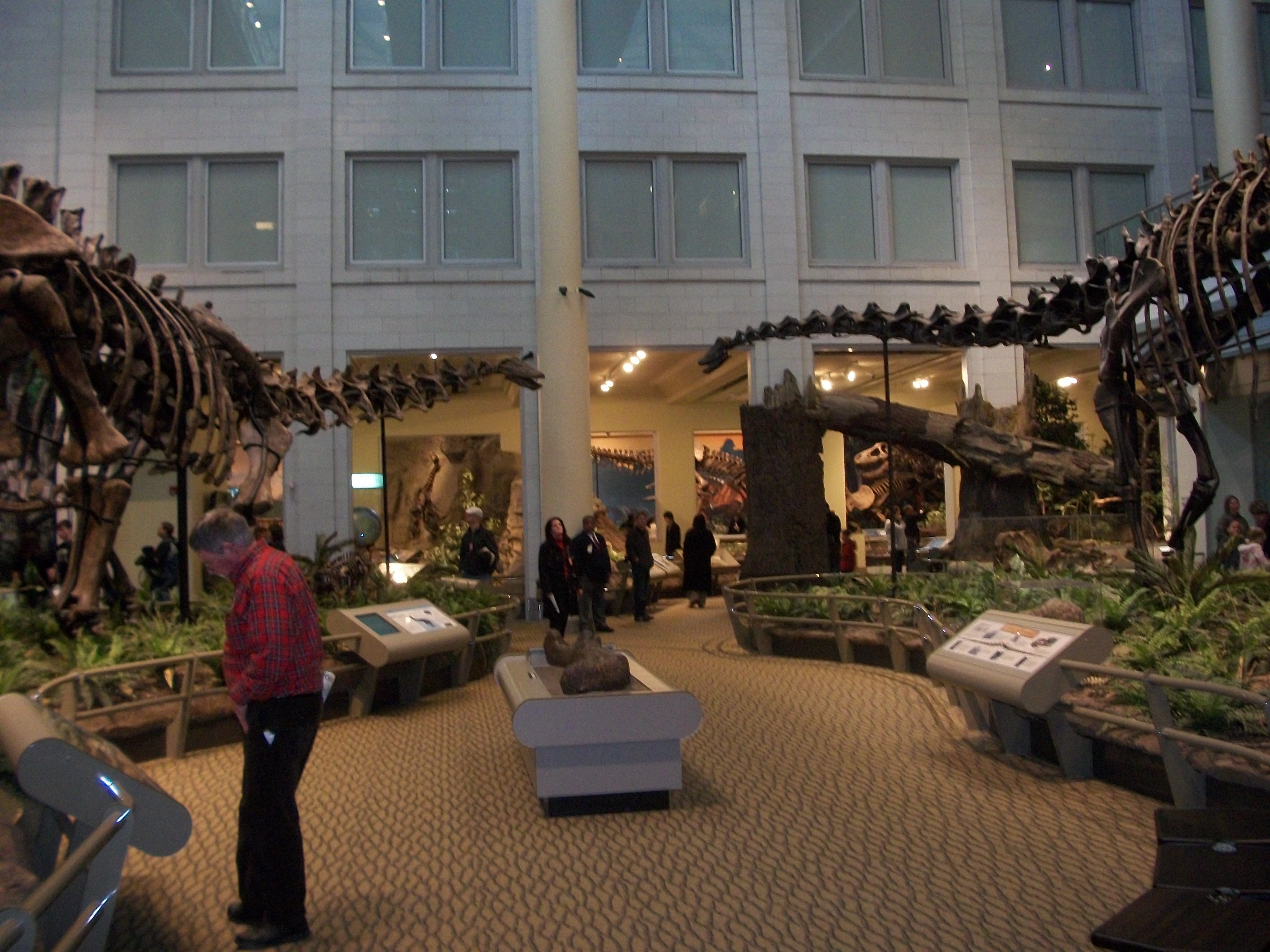 Taken Valentines Day 2010.